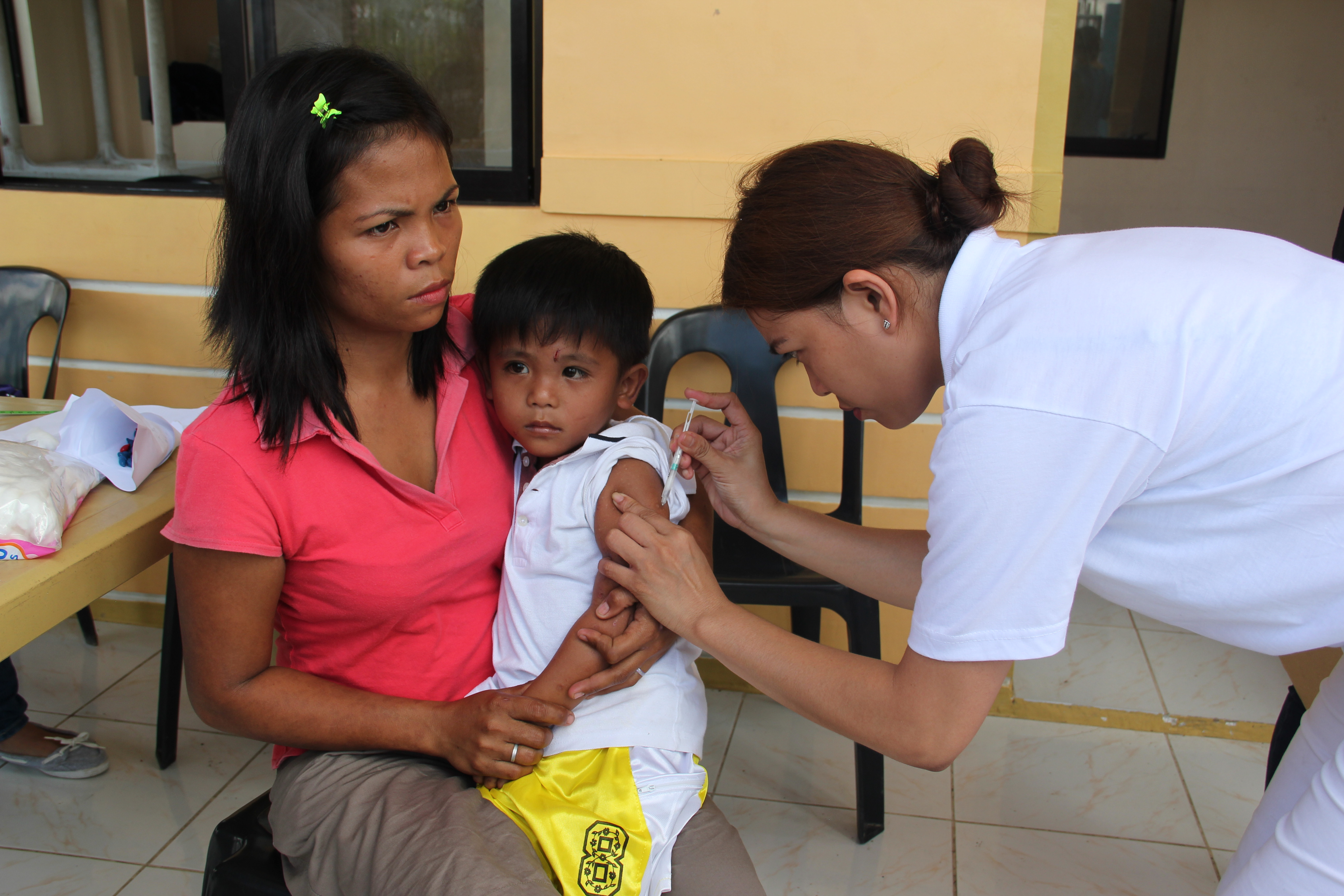 Marciana's four-year-old son receives a UK-funded measles vaccination carried out by Save the Children in the Tanauan municipality of Leyte, Philippines. The programme aimed to vaccinate every child in their community in one day, to help prevent outbreaks of the disease in the aftermath of Typhoon Haiyan. "Our house was flooded by the sea during the typhoon and collapsed", says Marciana. "It was a very difficult time for my family. I’m glad my boy has had his vaccinations as I know he is now safe from disease." To find out more about how UK aid is helping people recover from Typhoon Haiyan, please visit Picture: Jess Seldon/Department for International Development